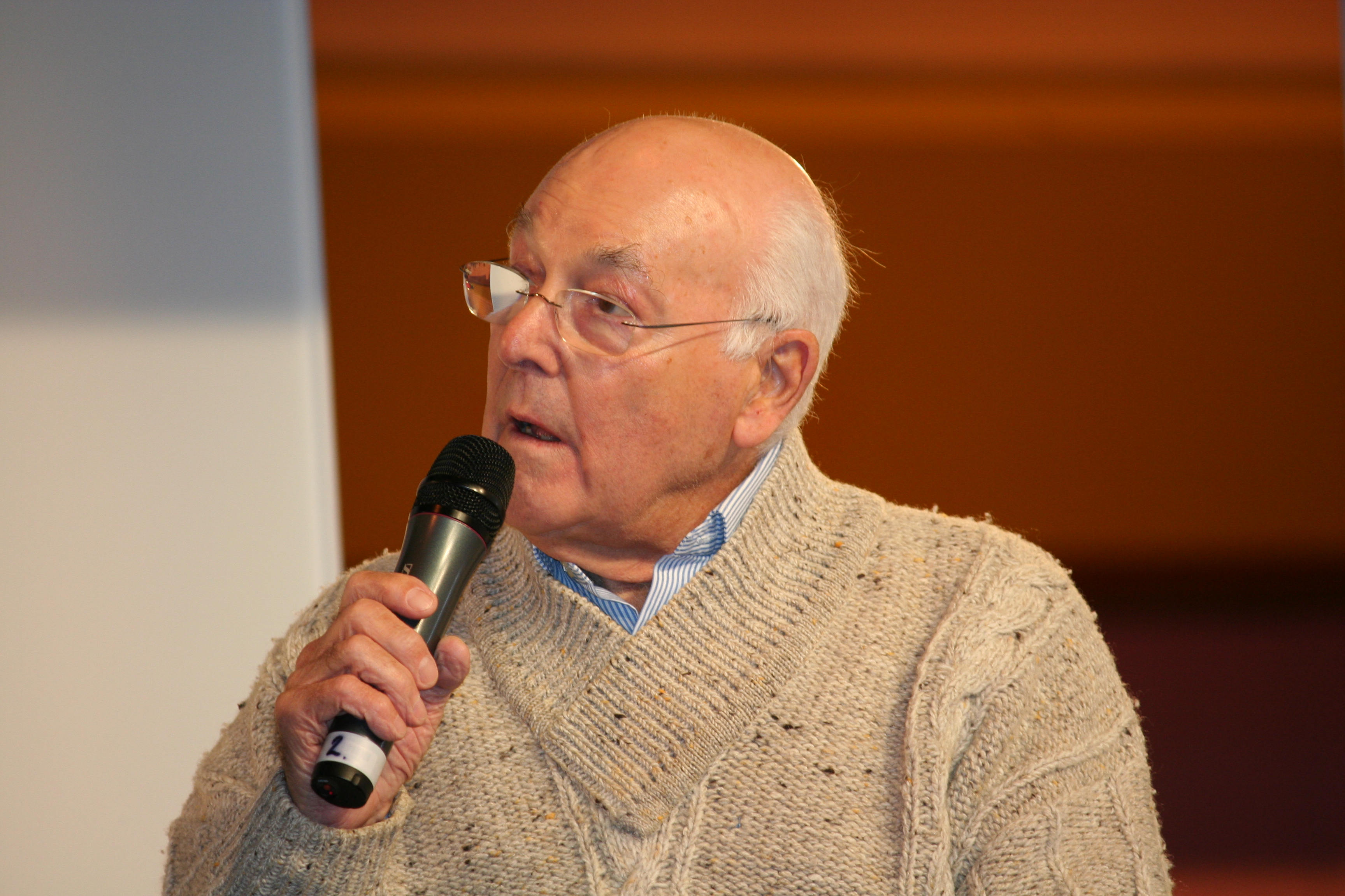 Murray Walker at Autosport International 2009.